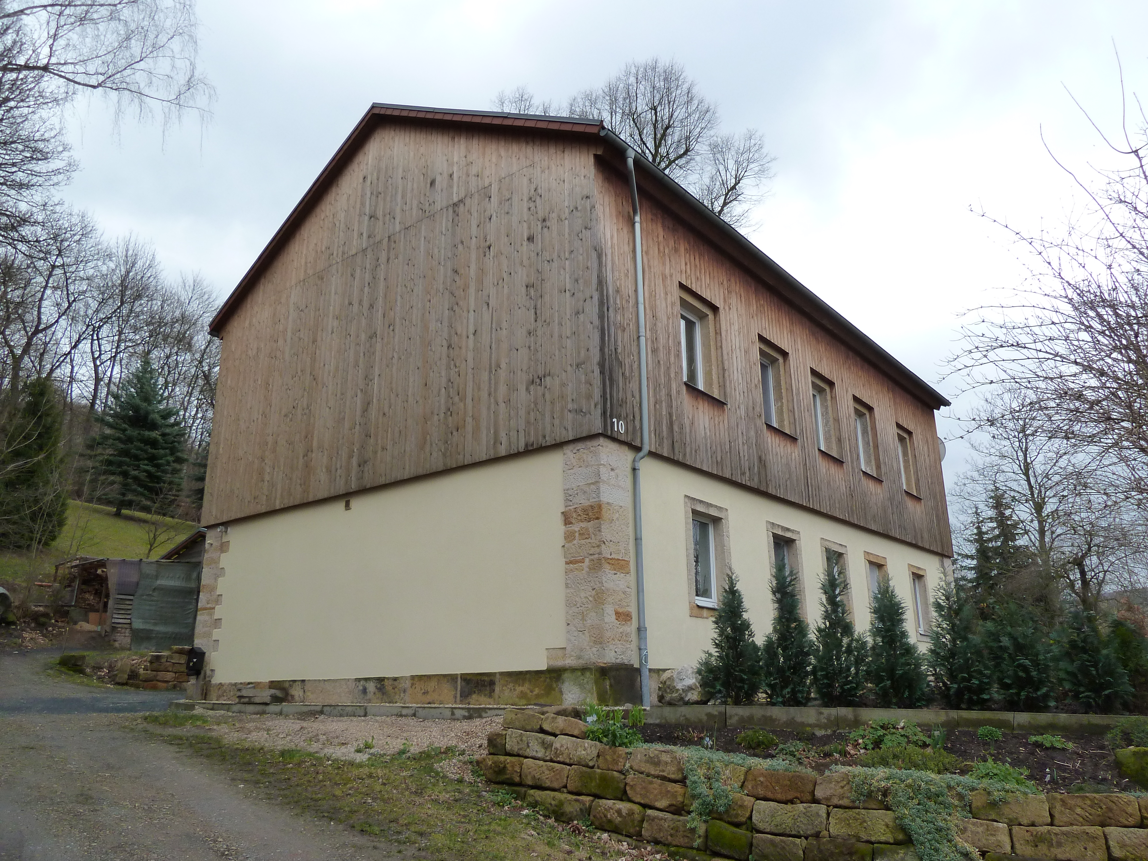 Office and dwellling-house of the King Friedrich-August Mine (1846—1893), which belonged to the Freiherrlich Burgker Steinkohlenwerke (1767—1930); renovated about 2004. Müllers Weg 10 in Niederhäslich (Freital).